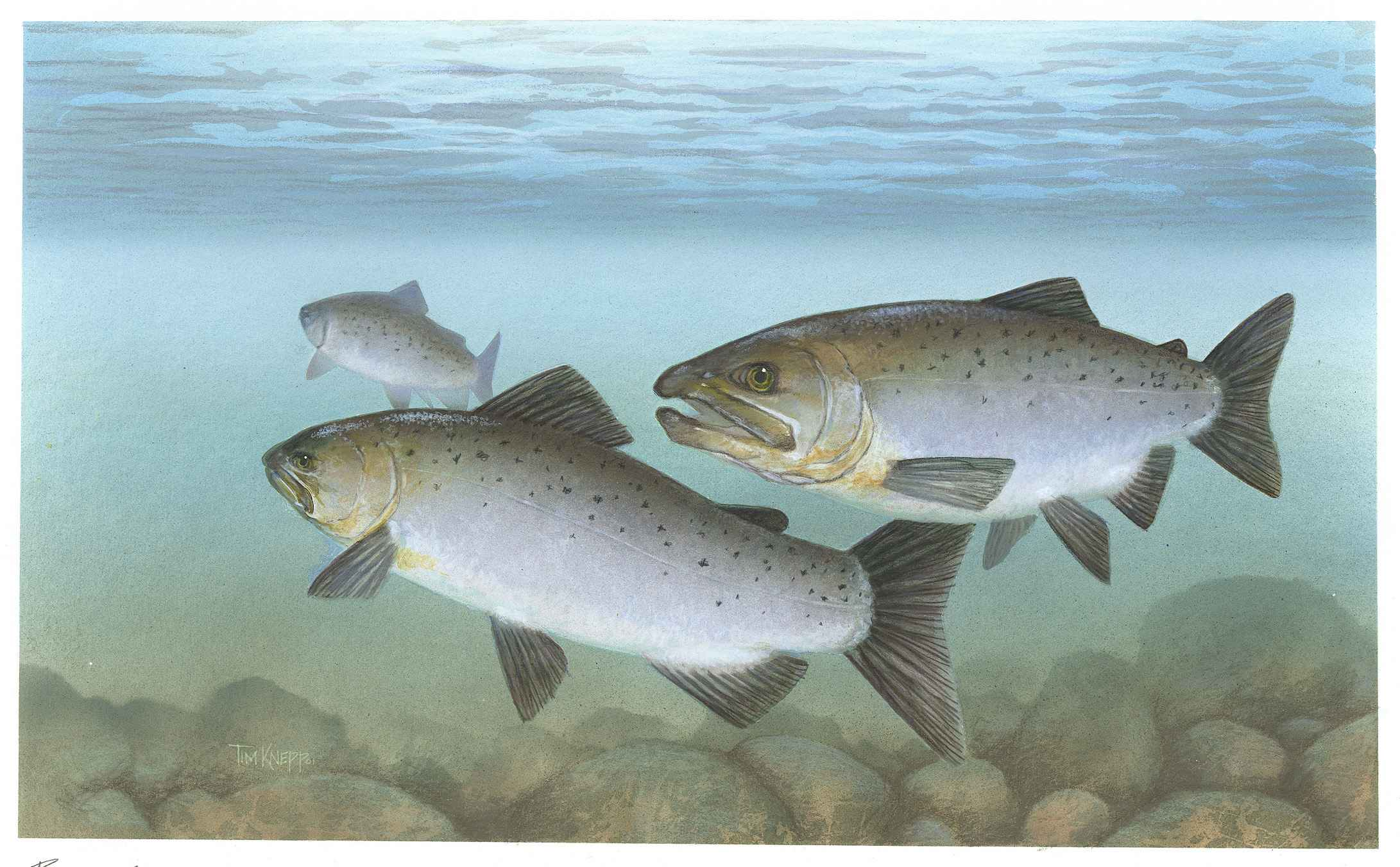 Image title: Pacific salmon fish underwater oncorhynchus Image from Public domain images website